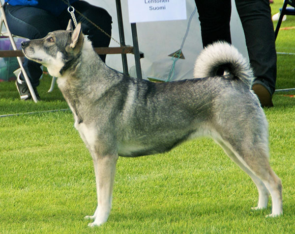 A female Swedish Elkhound. Colour: wolf-grey with cream markings.